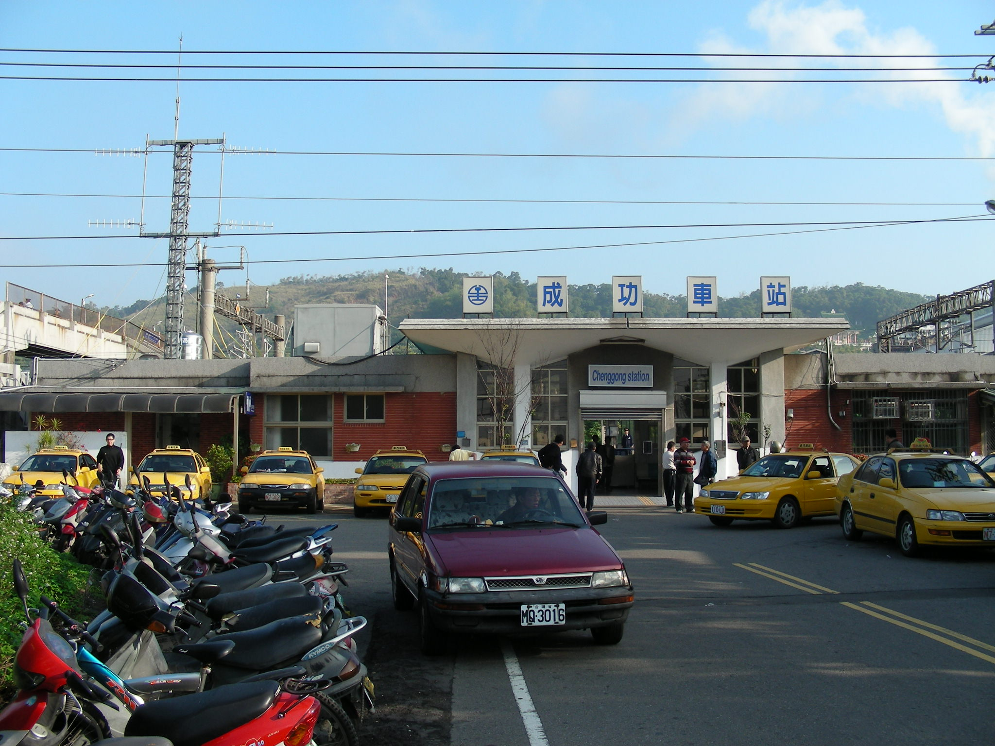 Chenggong Station of Taiwan Railway Administration.